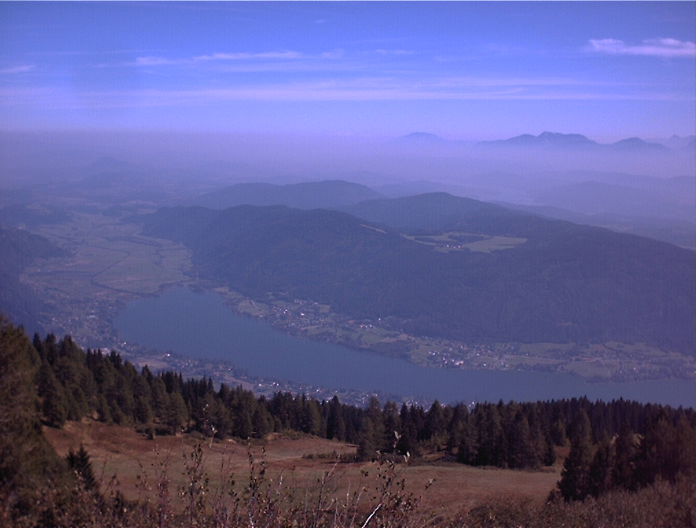 Lake Ossiach, Carinthia, Austria